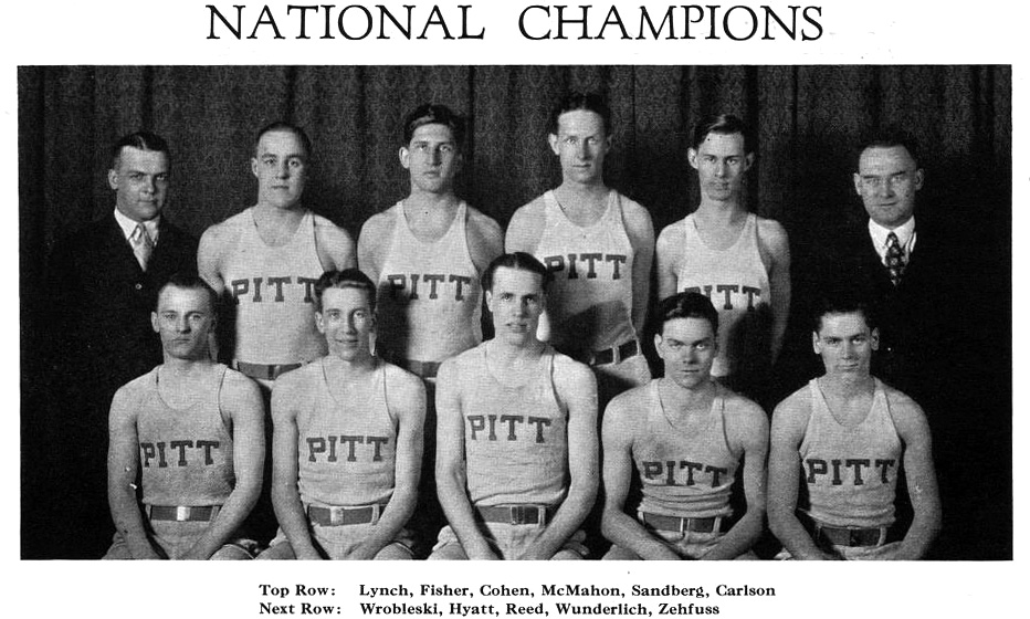 The undefeated and Helms National Championship 1927-1928 Pitt basketbal team.Top Row: Lynch, Fisher, Cohen, McMahon, Sandberg, CarlsonBottom Row: Wrobleski, Hyatt, Reed, Wunderlich, Zehfuss